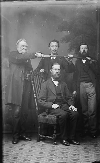 1 negative : glass, wet collodion, b&w ; 11 x 16.5 cm.